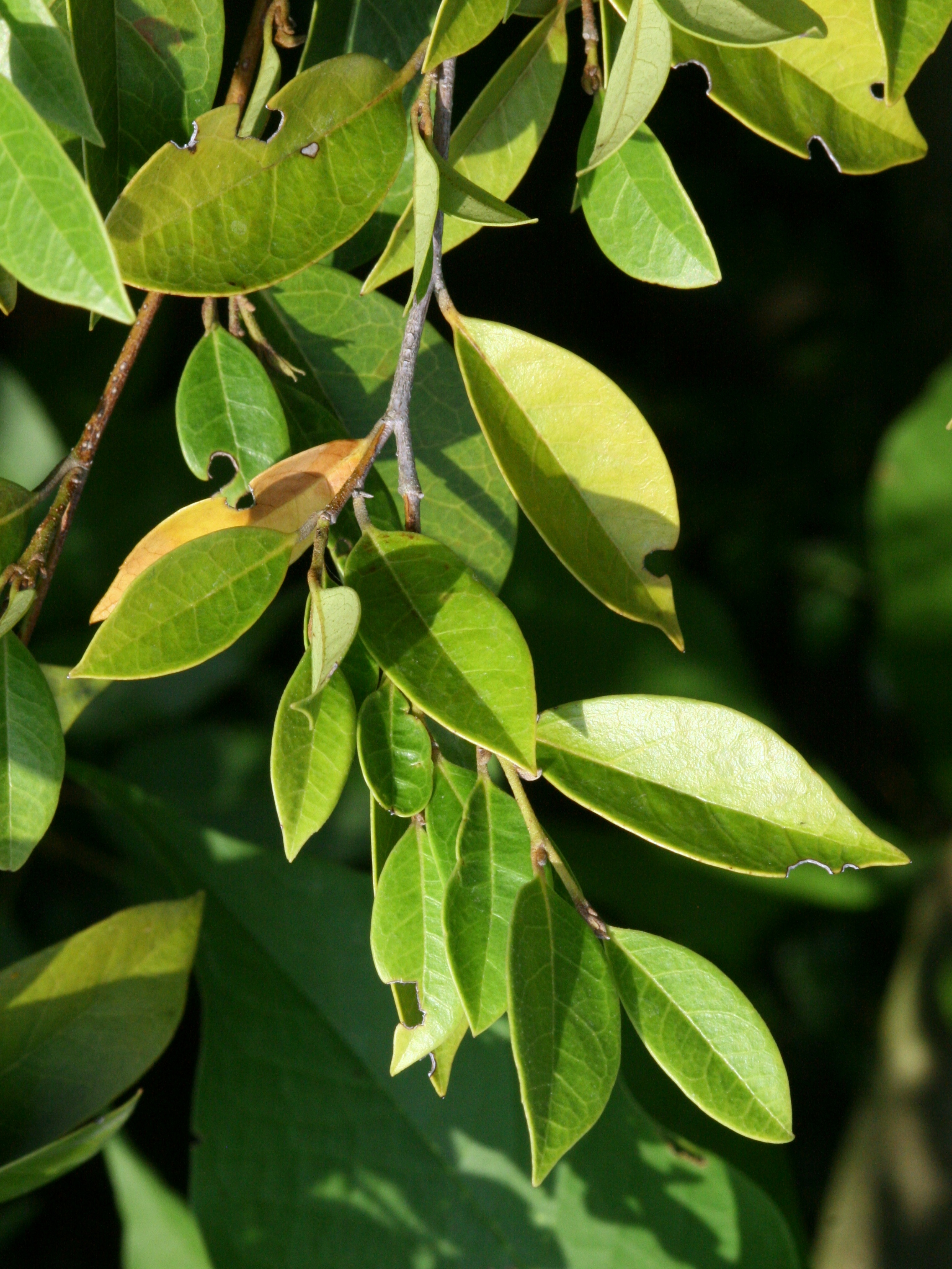 Sycopsis sinensis, Arboretum in Brno, Czech Republic